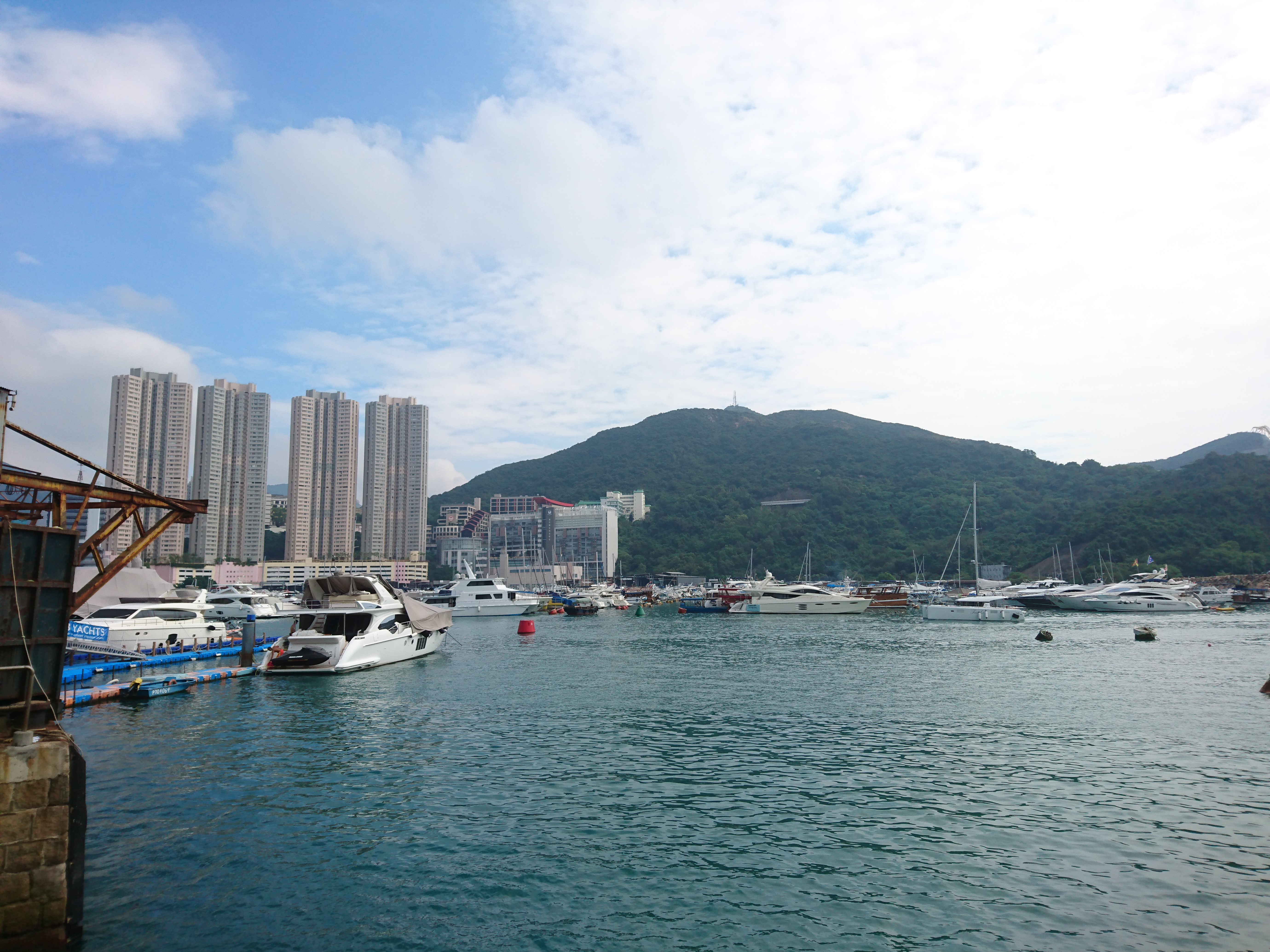 Po Chong Wan